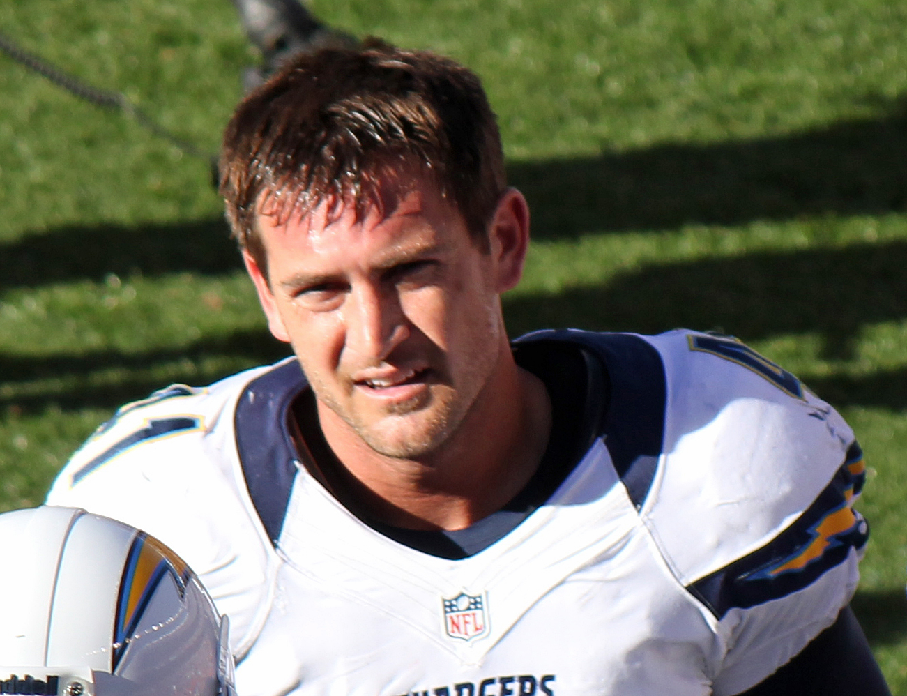 Corey Lynch, a player on the National Football League.